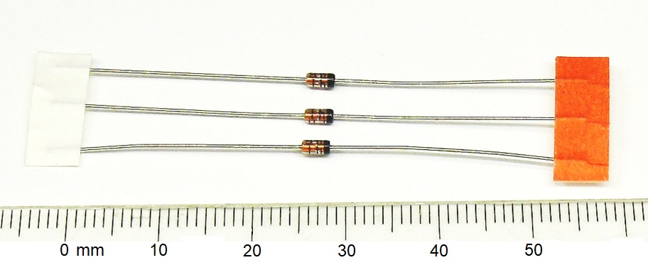 Three diodes 1N4148. (The ruler scale is in mm.)